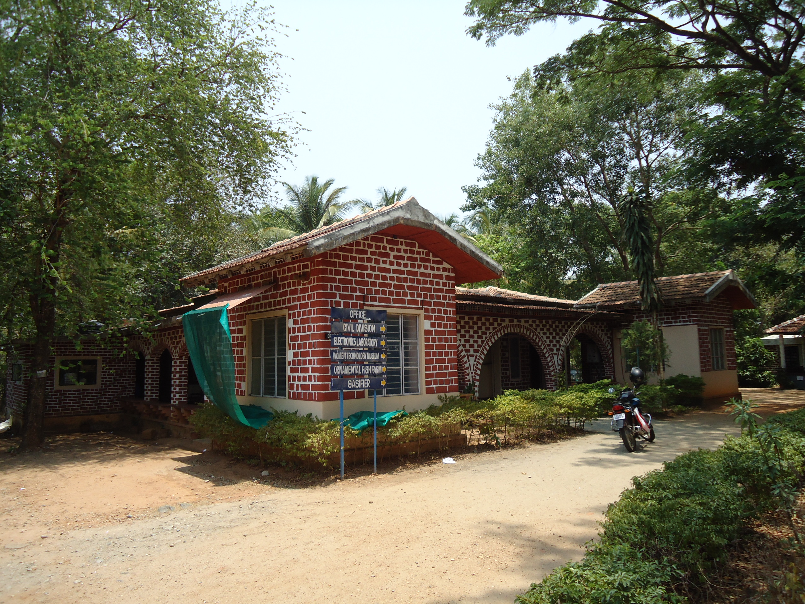 Integrated Rural Technology Center Mundur palakkad Office